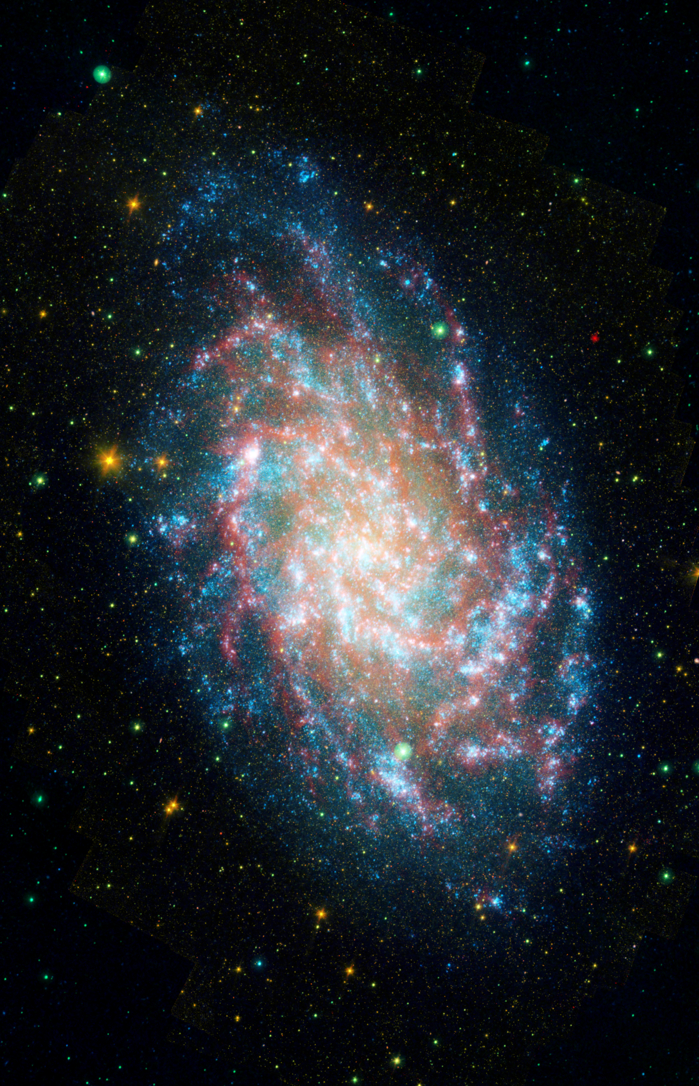 This image is a blend of the Galaxy Evolution Explorer's M33 image and another taken by NASA's Spitzer Space Telescope. M33, one of our closest galactic neighbors, is about 2.9 million light-years away in the constellation Triangulum, part of what's known as our Local Group of galaxies. Together, the Galaxy Evolution Explorer and Spitzer can see a broad spectrum of sky. Spitzer, for example, can detect mid-infrared radiation from dust that has absorbed young stars' ultraviolet light. That's something the Galaxy Evolution Explorer cannot see. This combined image shows in amazing detail the beautiful and complicated interlacing of the heated dust and young stars. In some regions of M33, dust gathers where there is very little far-ultraviolet light, suggesting that the young stars are obscured or that stars further away are heating the dust. In some of the outer regions of the galaxy, just the opposite is true: There are plenty of young stars and very little dust. Far-ultraviolet light from young stars glimmers blue, near-ultraviolet light from intermediate age stars glows green, near-infrared light from old stars burns yellow and orange, and dust rich in organic molecules burns red. The small blue flecks outside the spiral disk of M33 are most likely distant background galaxies. This image is a four-band composite that, in addition to the two ultraviolet bands, includes near infrared as yellow/orange and far infrared as red.